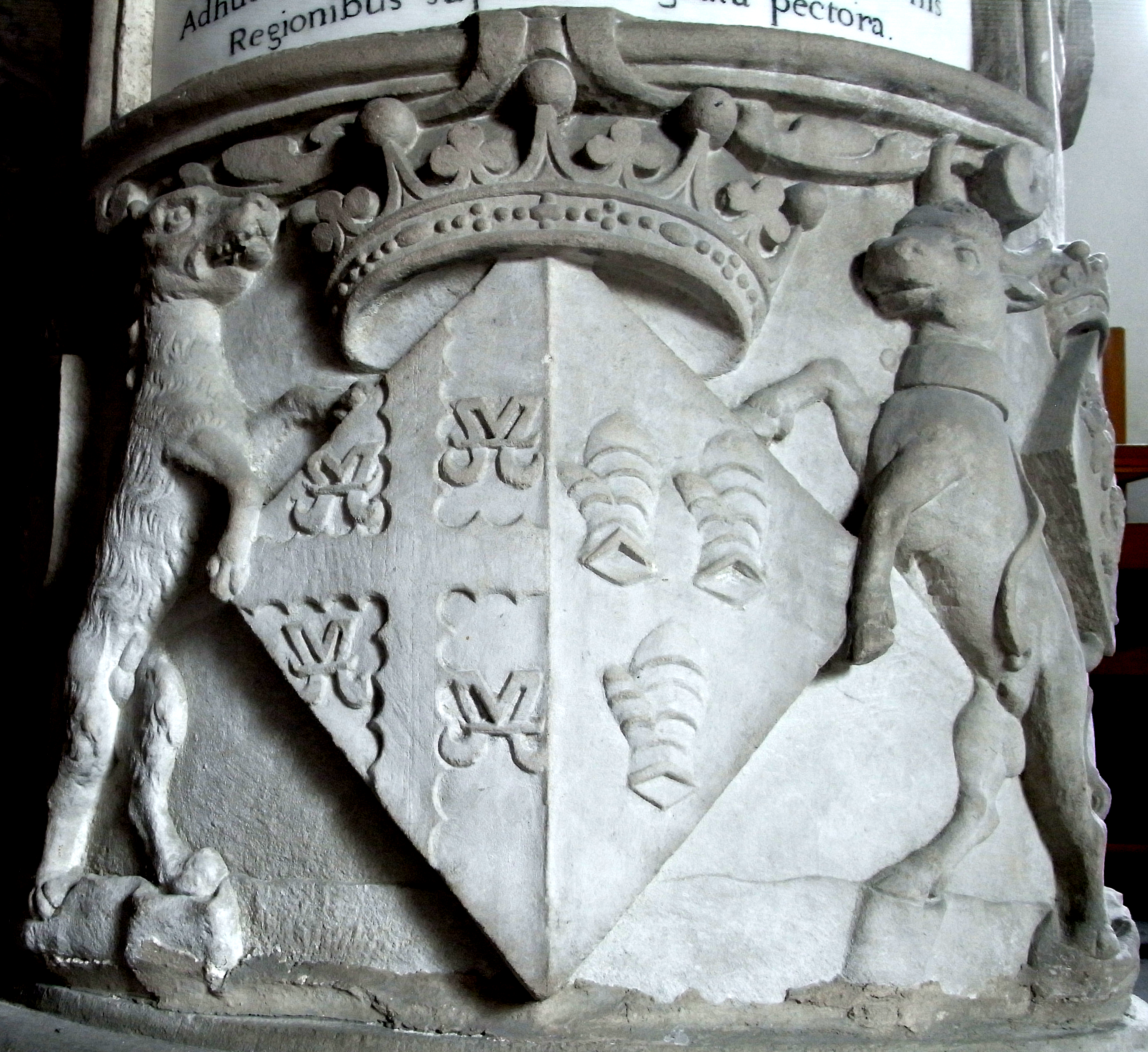 Arms of Bourchier impaling Fane, sculpted on base of statue in Tawstock Church, Devon, of Rachael Fane (1612/13-1680), fifth daughter of Francis Fane, 1st Earl of Westmorland and wife of Henry Bourchier, 5th Earl of Bath (1587-1654)